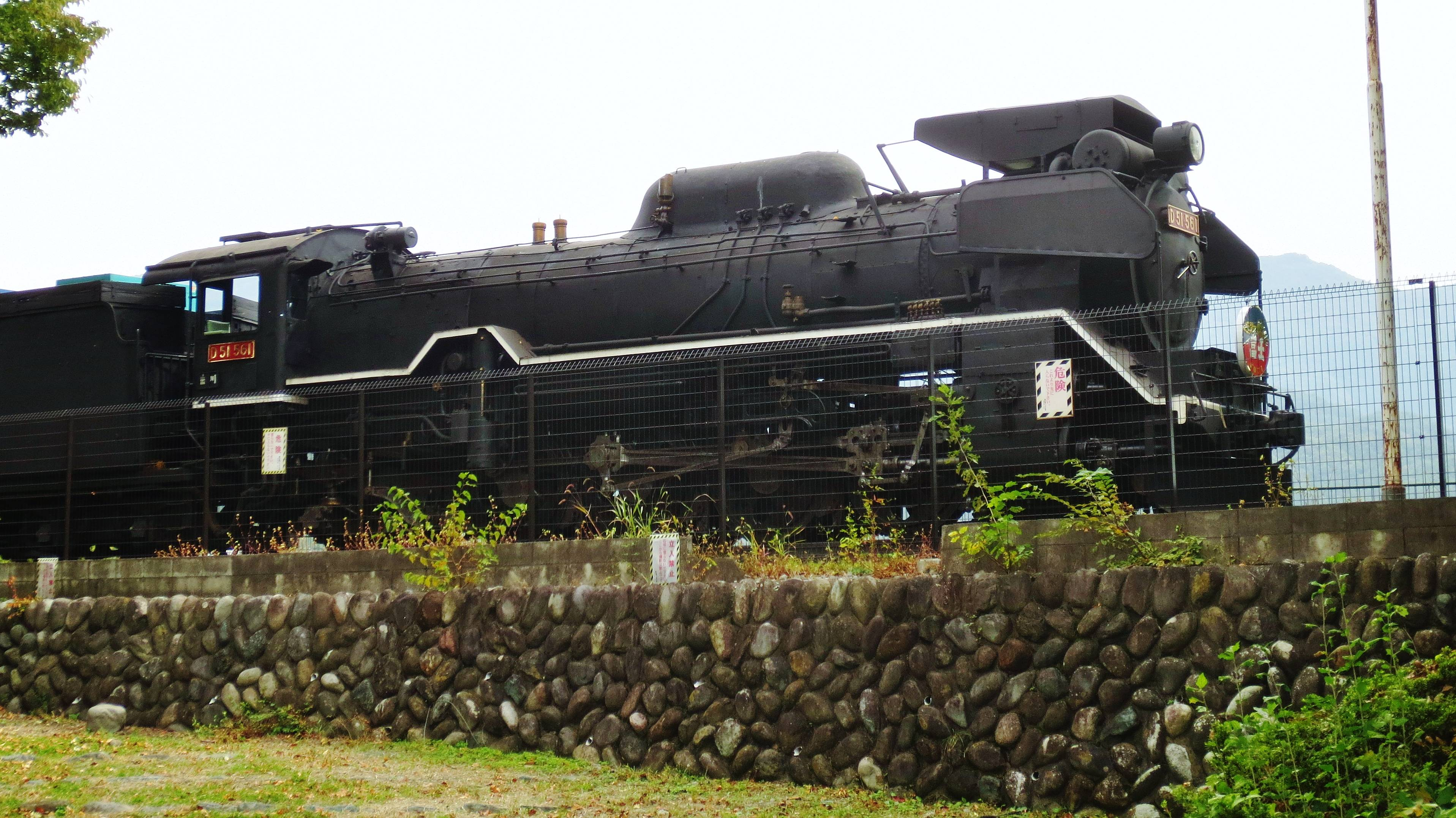 JNR Class D51 561 (Hotel SL).